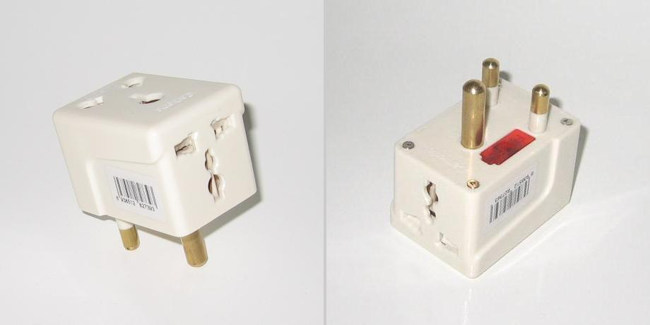 16A SANS 164-1 travel adaptor. A derived version of the BS 546 standard, to be used in "Type M" sockets.